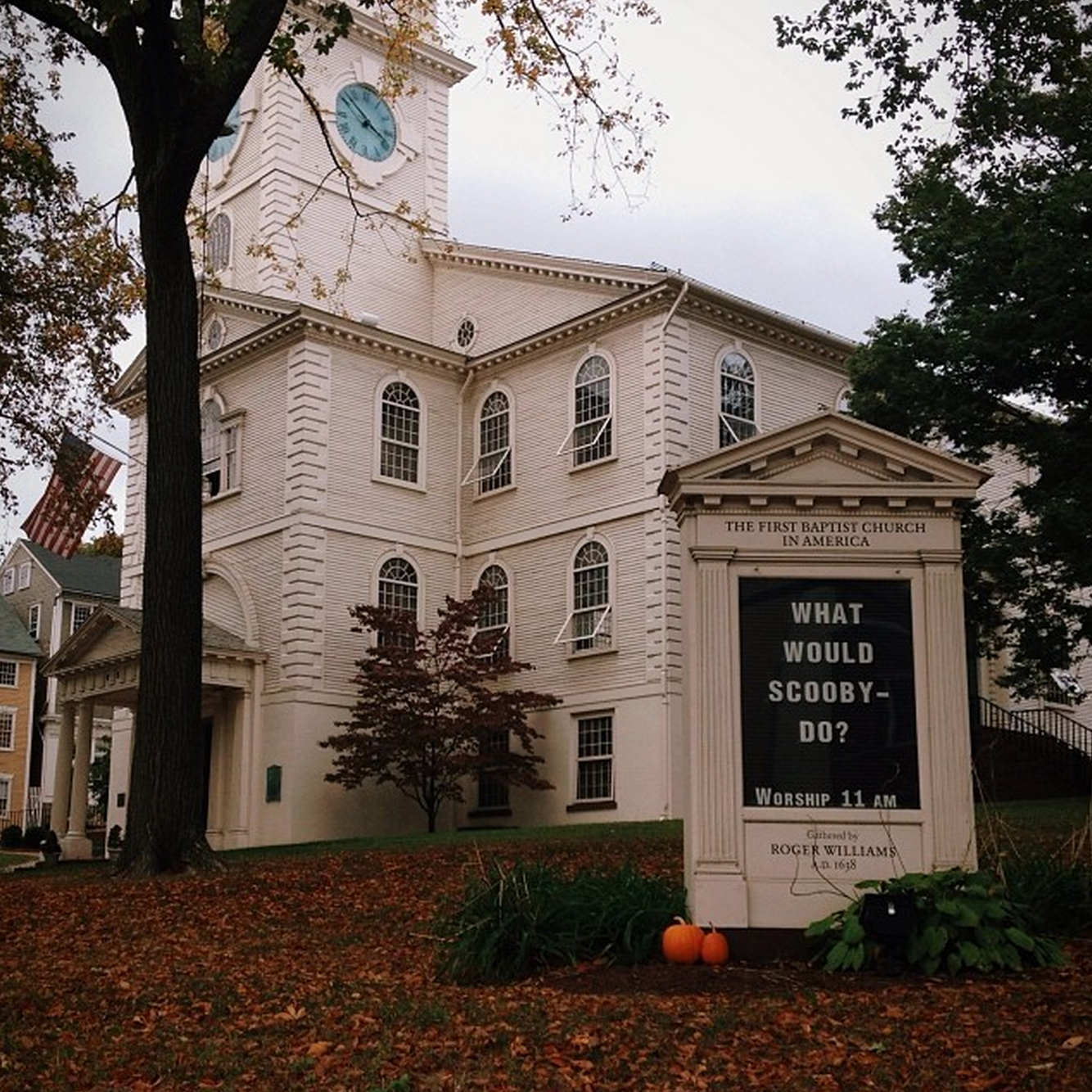 The First Baptist Church in America is known for employing pop culture references and comedy in its signage.